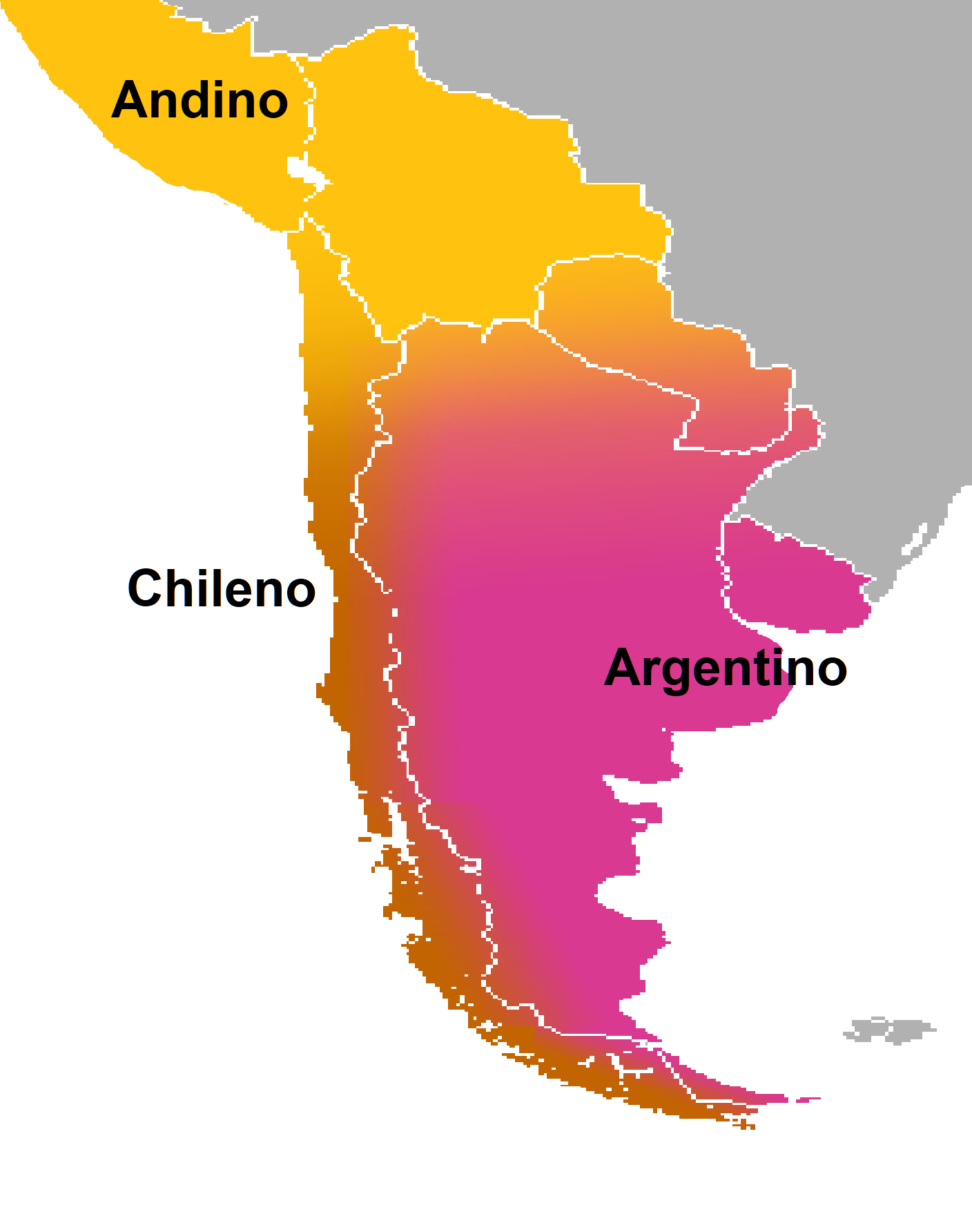 Main varieties of the Spanish language throughout of the southernmost areas of South America.